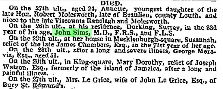 Obituary notice, John Sims, in THE TIMES, March 2, 1831, Issue 14476, p.4.